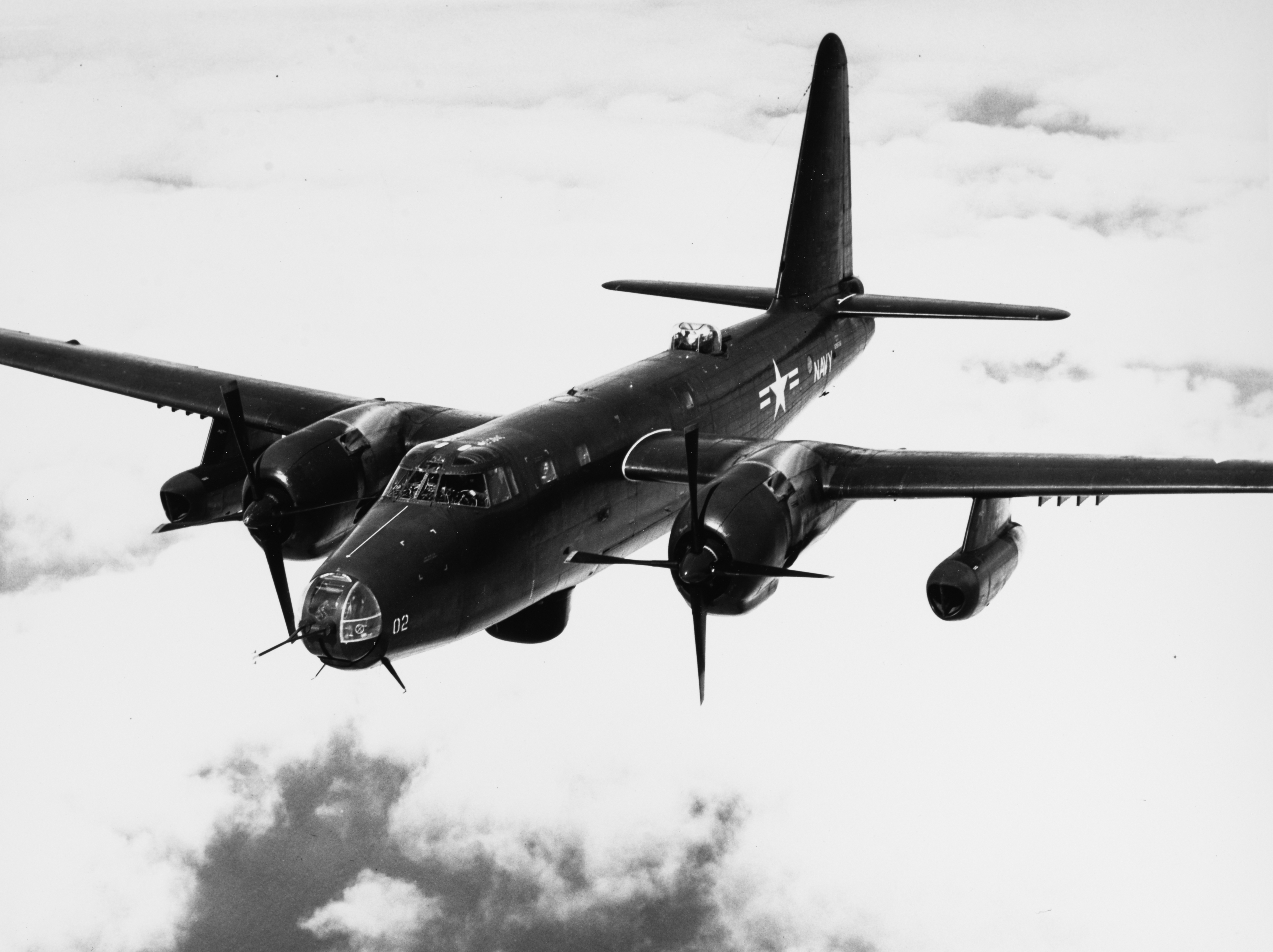 A U.S. Navy Lockheed P2V-6 Neptune (BuNo 126516) flying on its jets, with propellers feathered, 1952. Note the pilot tube in the nose gun position.